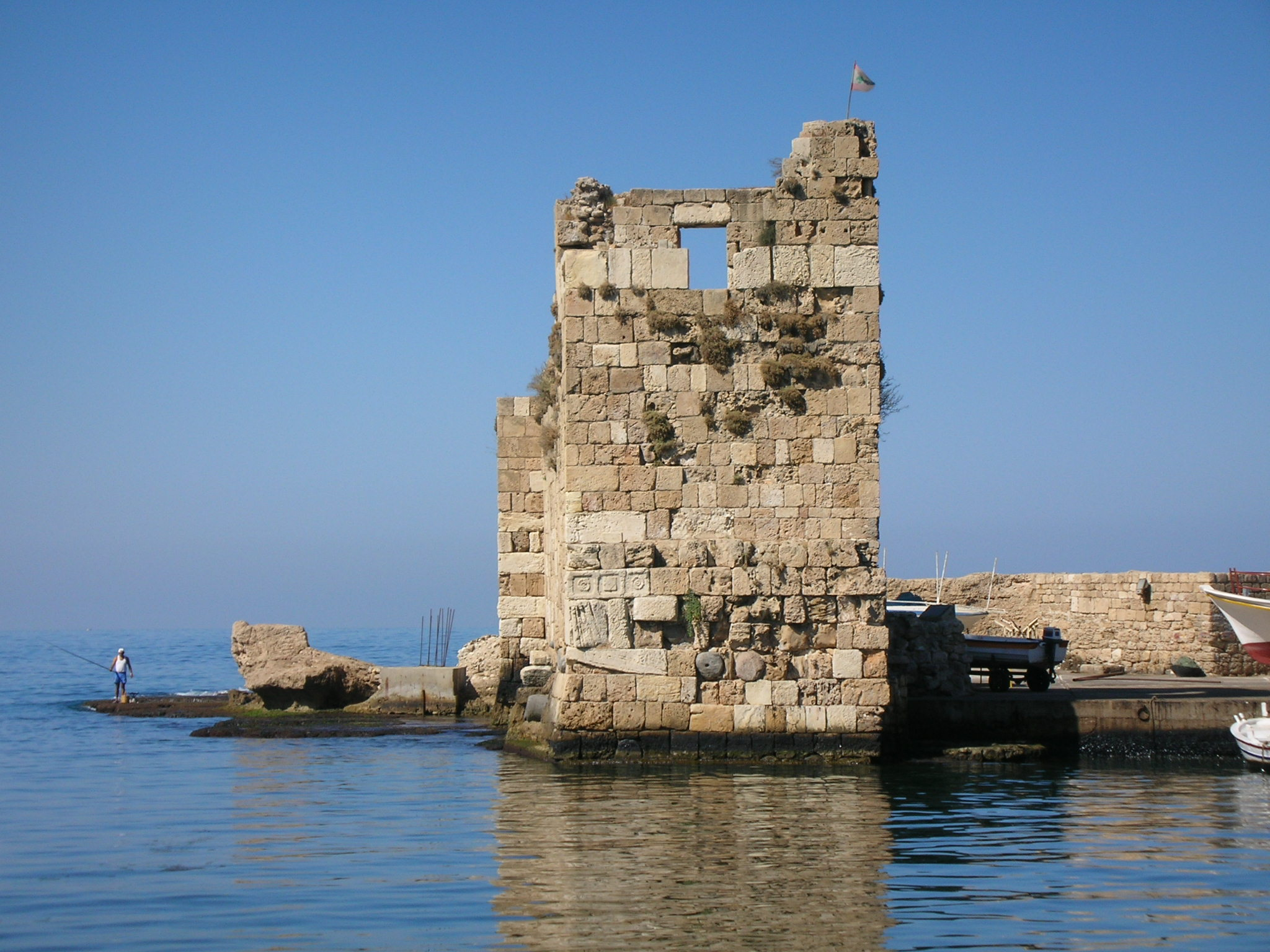 Byblos (Lebanon)